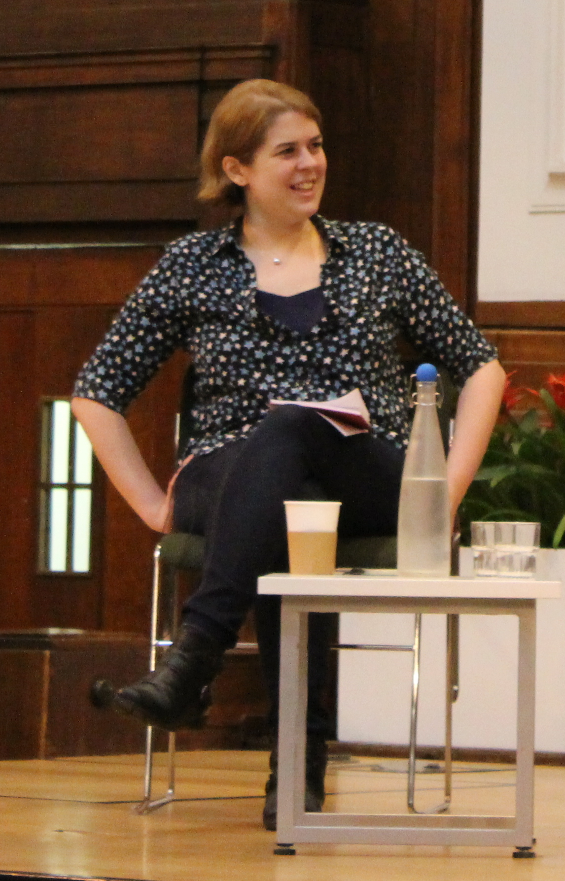 Original description: Graham Linehan in conversation with journalist Helen Lewis. Taken by: James Collis